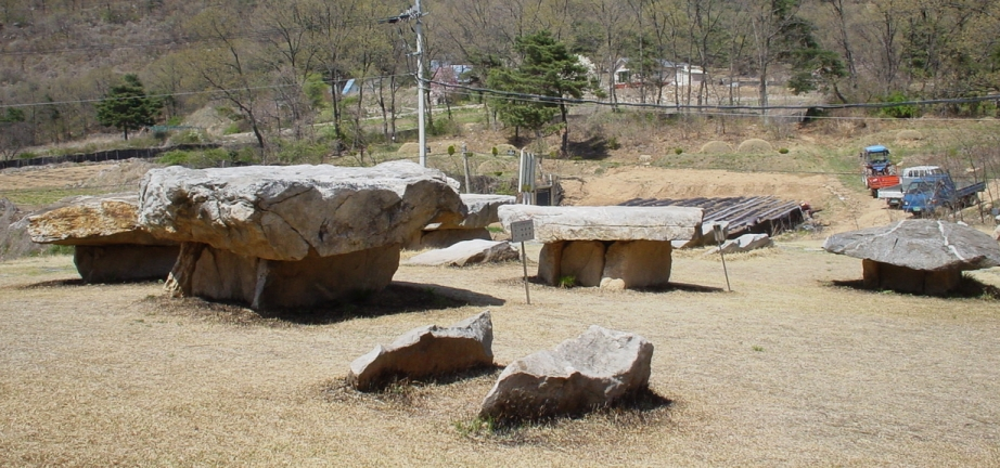 Dolmens in Osang-ri, Ganghwa Island, South Korea